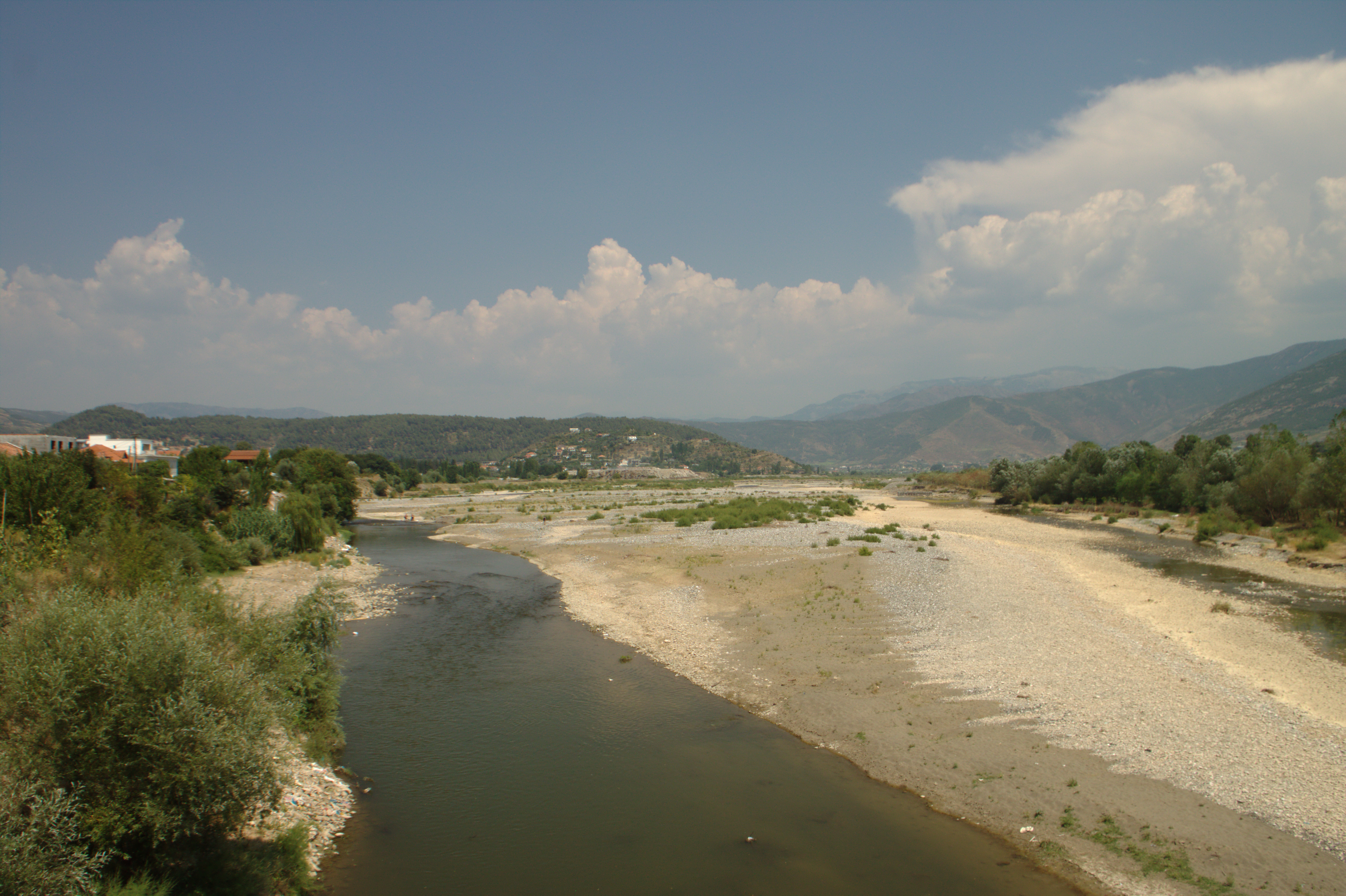 Shkumbin River south from Elbasan, Albania